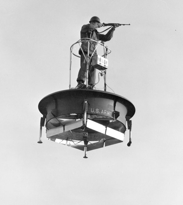 Hiller VZ-1 Pawnee (USA, 1955)